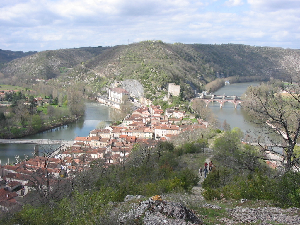 River Lot in Luzech, France